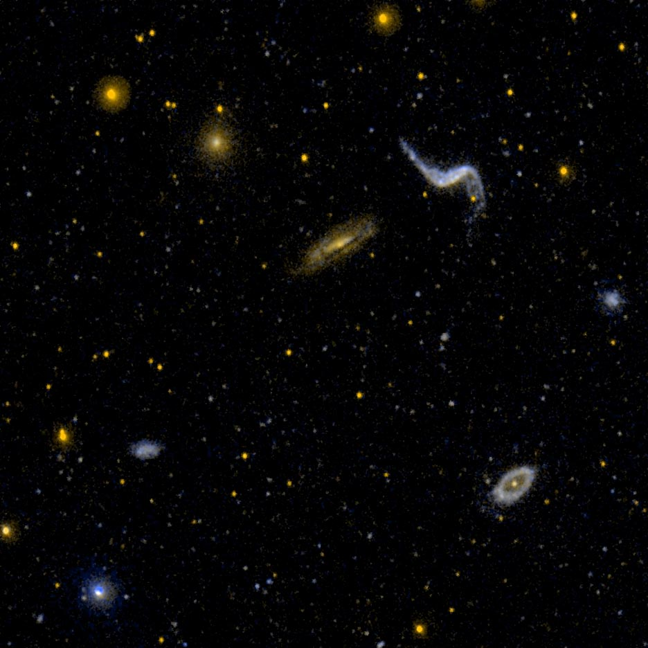 NGC 3190, NGC 3189 (aka the lower part of NGC 3190), NGC 3187. Galaxies in this GALEX ultraviolet image: Middle NGC 3190 Upper right (2 o'clock) NGC 3187 Lower right (4 o'clock) NGC 3185 Upper inner left NGC 3193 (with magnitude 9.6 star directly above it) Sloan Digital Sky Survey (SDSS) image of this region